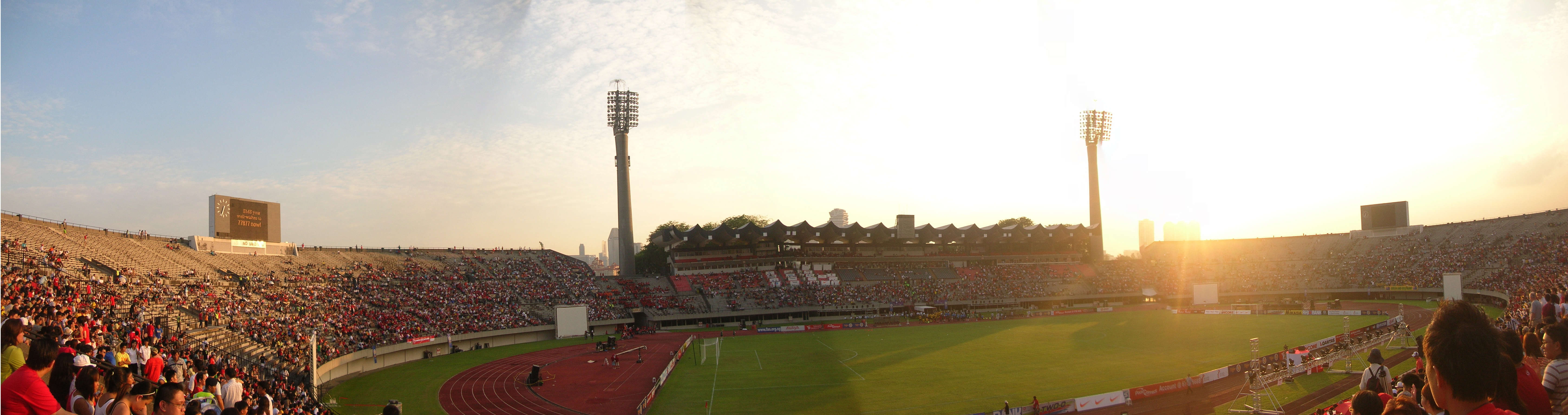 National Stadium, a panorama of its closing ceremony.